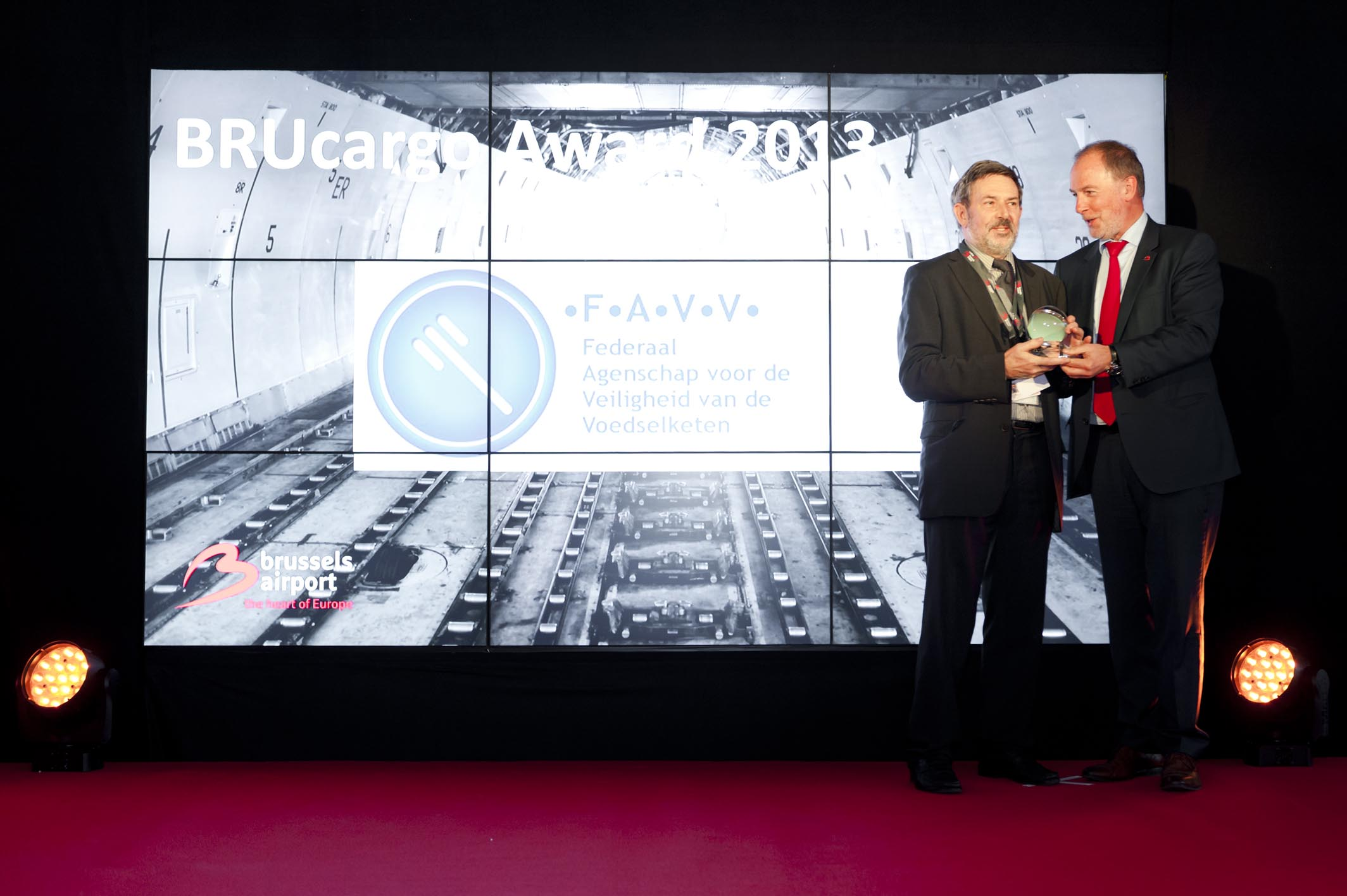 The Brucargo award goes to the FAVV, the Federal Agency for the safety of the food chain. Press release: bit.ly/1oDFS23